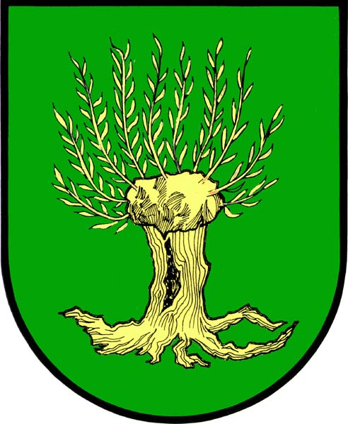 Municipal coat of arms of Vrbice village, Nymburk District, Czech Republic.